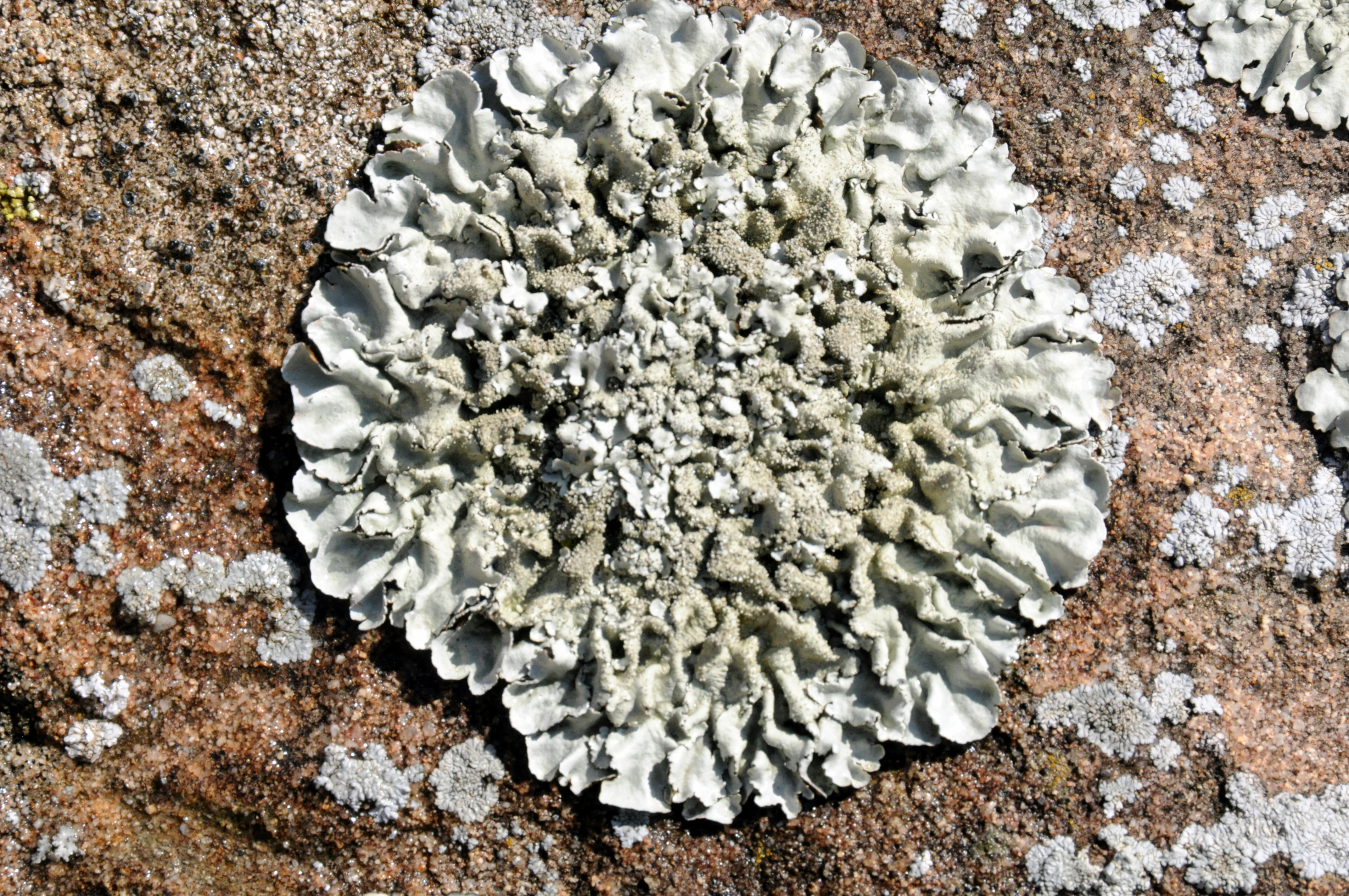 Xanthoparmelia mexicana (Gyelnik) Hale Image location: Santa Barbara Co., California, USA Abundant on sandstone boulders in open sunny aspects with surrounding coast live oak (Quercus agrifolia). Light yellow green thallus abundant on roadside boulder. No apothecia or soredia, isidia abundant. Thallus light tan below, no rhizines near lobe tips. Medulla white, K+Y turning dark red. Co-occurs with Xanthoparmelia lineola. Xanthoparmelia plittii and other species that are isidiate with light lower thallus color, large overall size and K+ positive reaction differ from Xanthoparmelia mexicanaby medulla chemistry, with X. plittii and others having a K+Y turning orange (Norstictic or Stictic acids) rather than red (Salazinic acid). Used references: Nash Sonoran Flora For more information about this, see the observation page at Mushroom Observer.